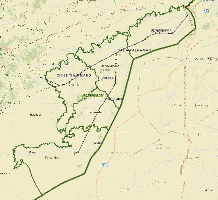 Map of District Bahawalanagar with Tehsil Boundaries